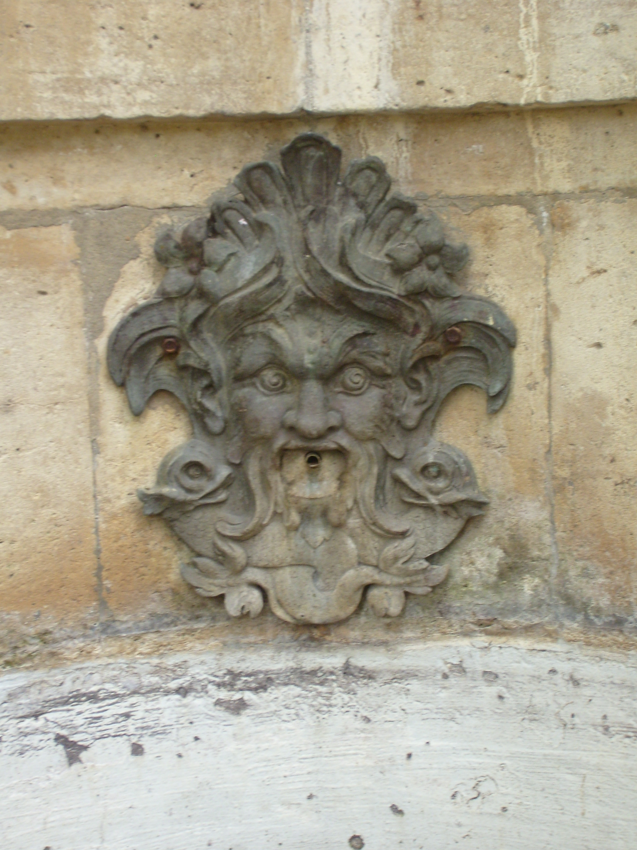 Masqueron of the Fontaine de l'Abbaye Saint-Germain-des-Pres, 1715-17. Sculpture by Victor-Thierry Dailly. Originally near the Abbaye of Saint-Germain-des-Pres at Rue Childebert and Rue Sainte-Marguerite. Moved to make room for Boulevard Saint-Germain in the 19th century, and now in Square Langevin, in the 5th arronidissement.